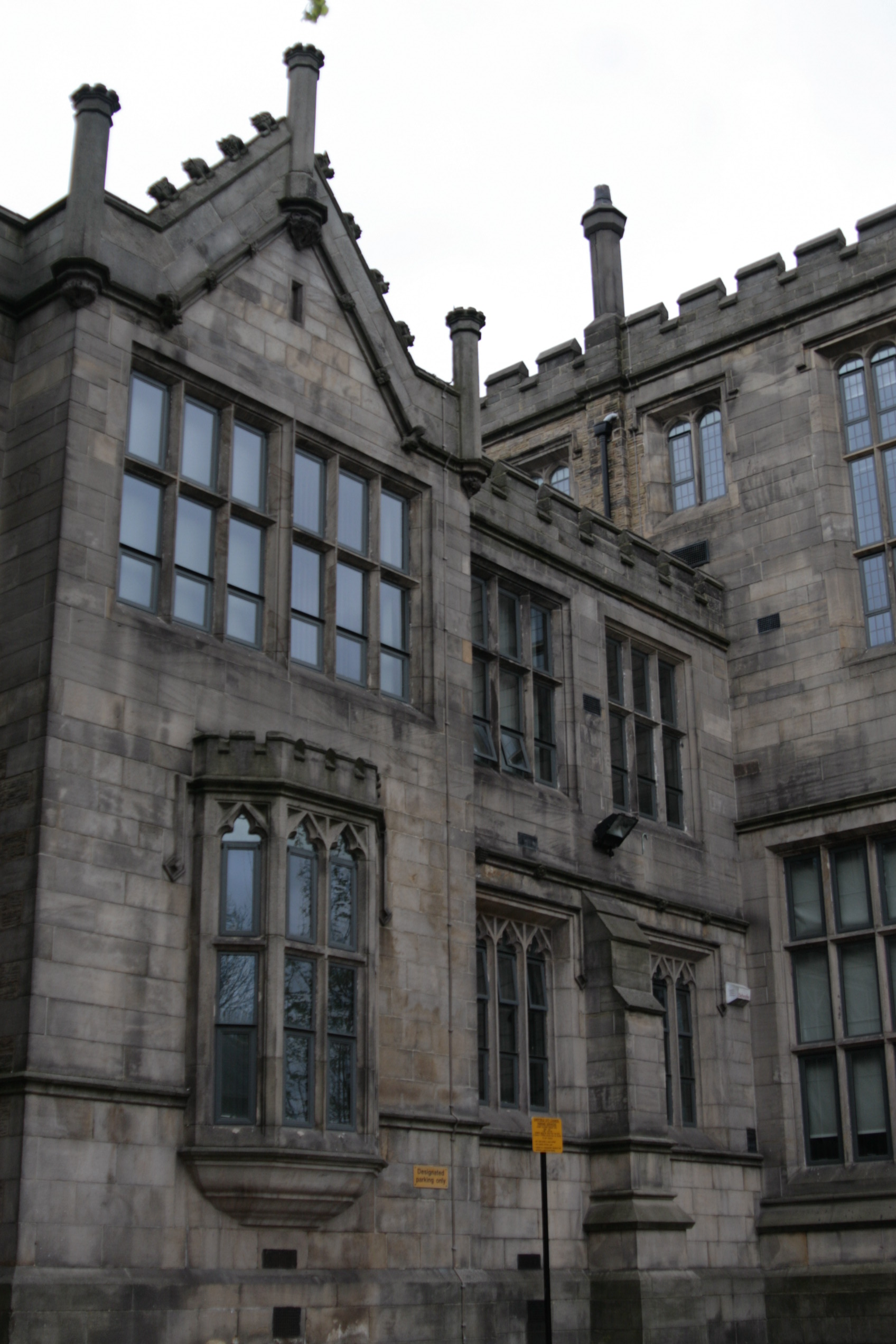 Sheffield Hallam Collegiate Crescent Campus